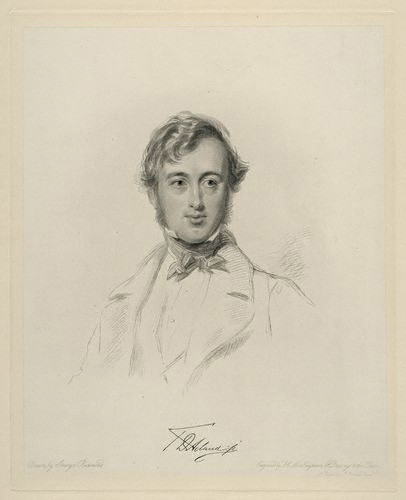 Sir Thomas Dyke Acland, 11th Baronet (1809-1898)